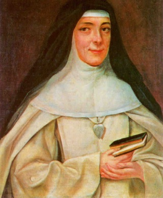 Ancient prayer prayer-card of Saint Marie-Euphrasie Pelletier